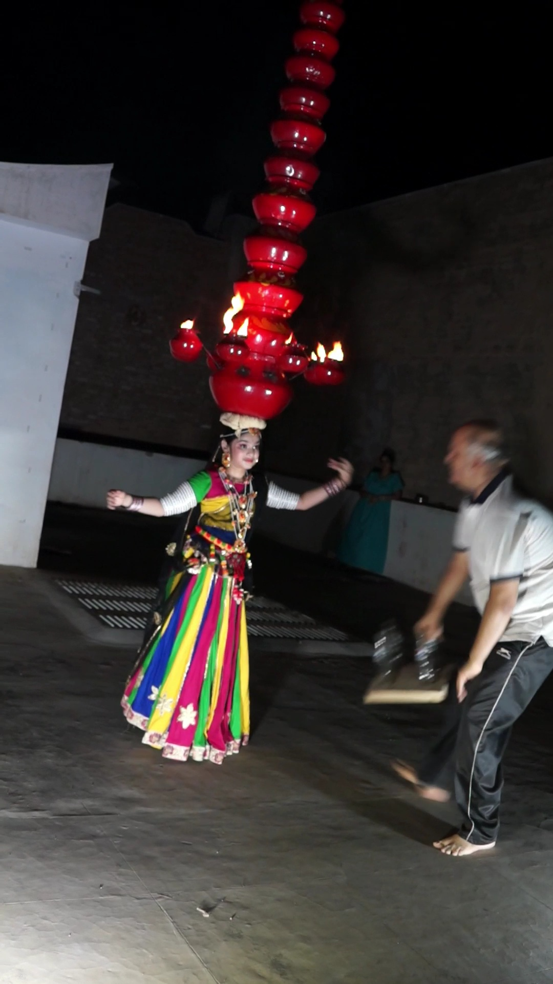 Bhavai Dancer